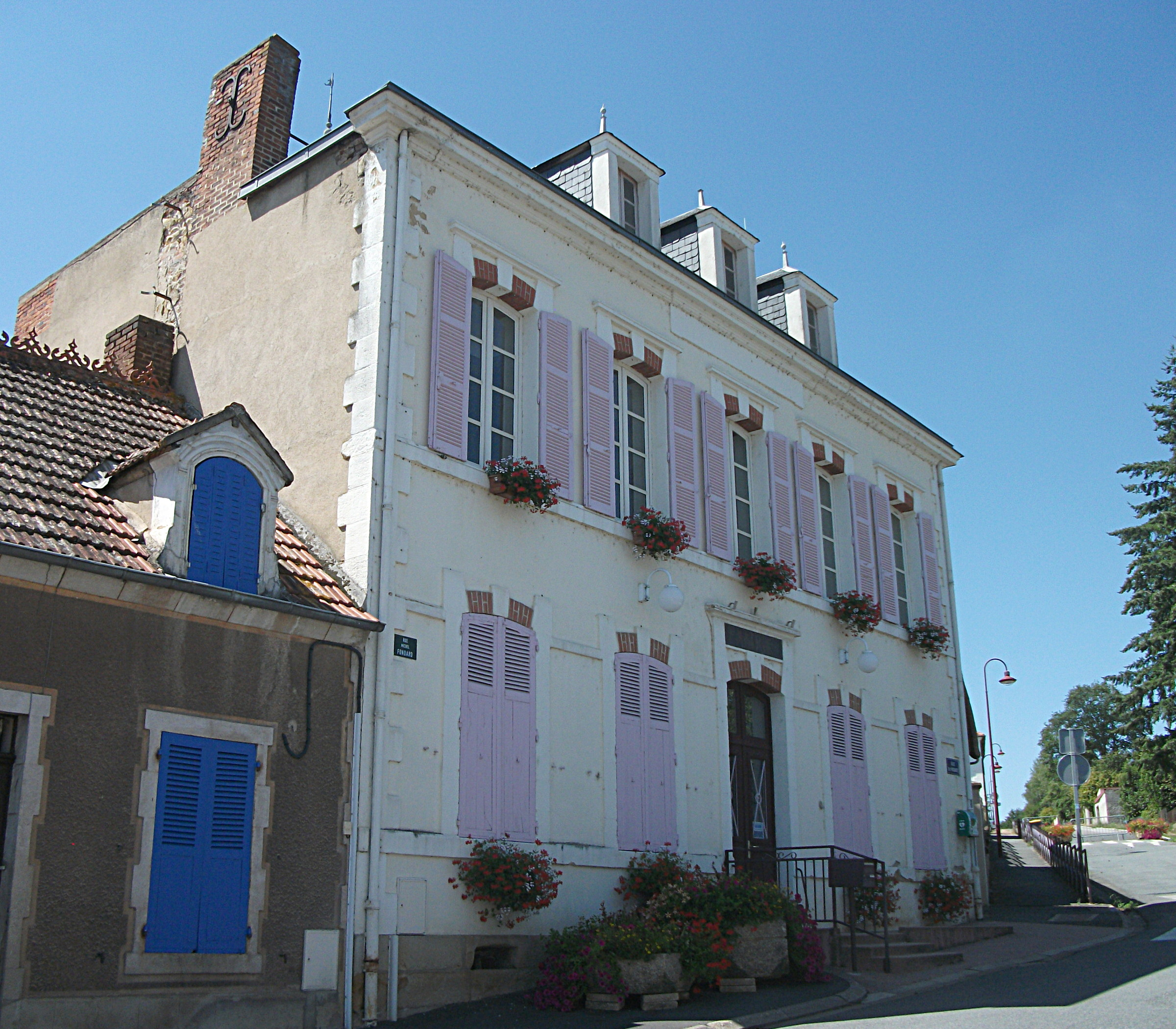 Town hall of Bézenet, Allier, Auvergne-Rhône-Alpes, France. [16737]